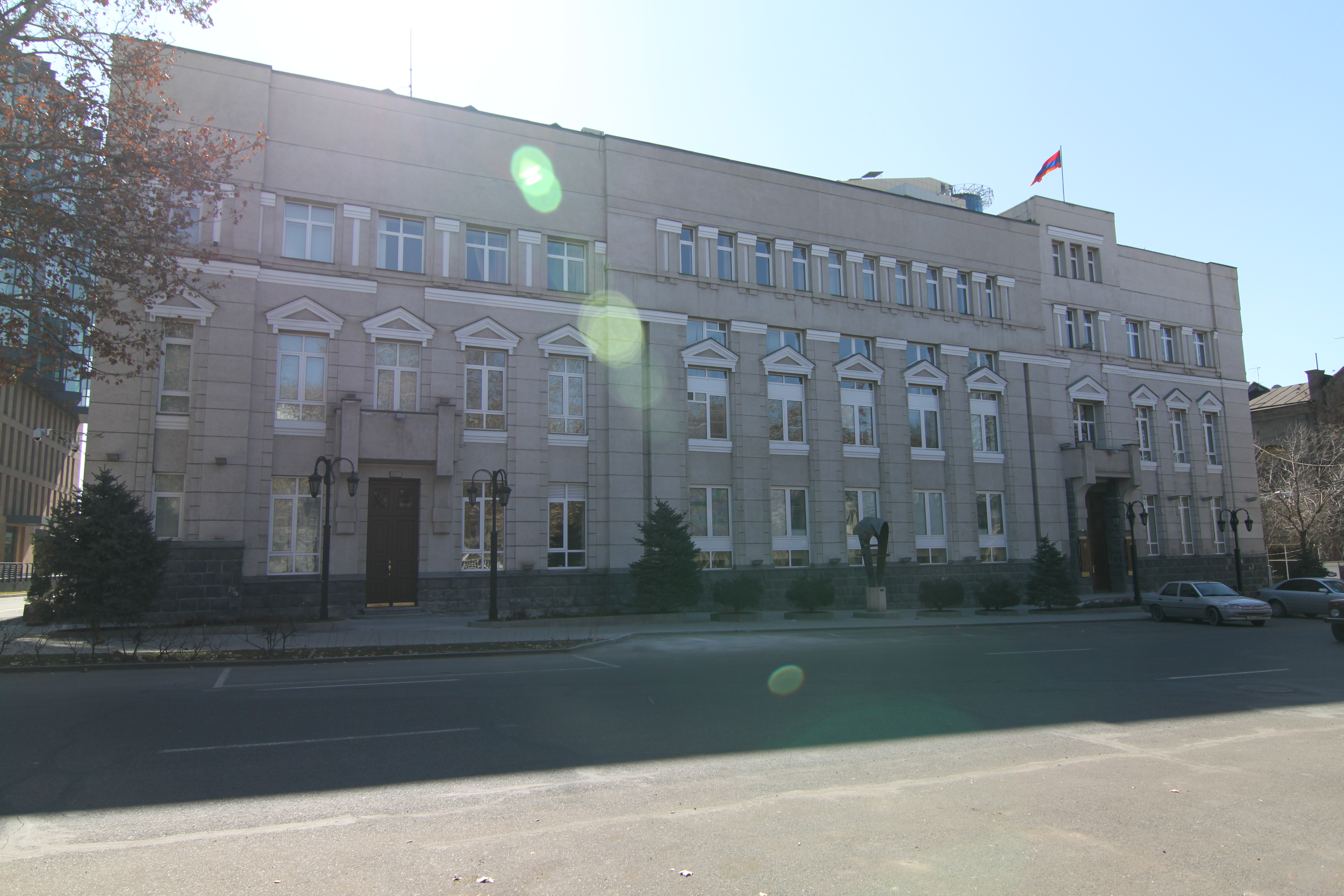 The Central Bank of Armenia on Vazgen Sargsyan Street in the Kentron district of Yerevan.